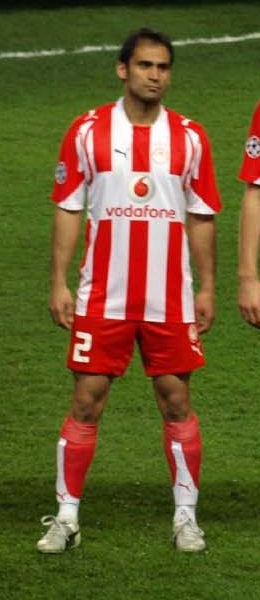 Christos Patsatzoglou Chelsea (3) v (0) Olympiakos